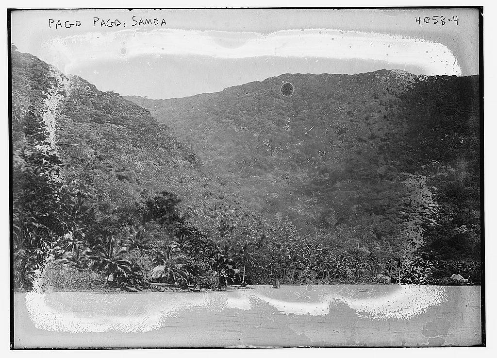 Bain News Service,, publisher. Pago Pago, Samoa [between ca. 1915 and ca. 1920] 1 negative : glass ; 5 x 7 in. or smaller. Notes: Title from unverified data provided by the Bain News Service on the negatives or caption cards. Forms part of: George Grantham Bain Collection (Library of Congress). Format: Glass negatives. Repository: Library of Congress, Prints and Photographs Division, Washington, D.C. 20540 USA, General information about the Bain Collection is available at Higher resolution image is available (Persistent URL): Call Number: LC-B2- 4058-4